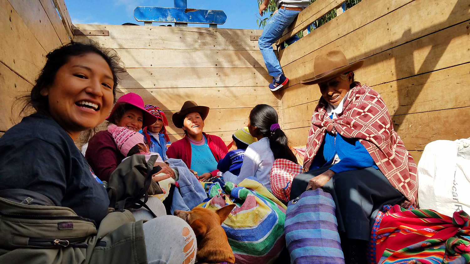 Locals riding in a livestock truck with produce and artesanial products to sell in the weekly Market "Mercado Ferial" in Chinchaypujio.